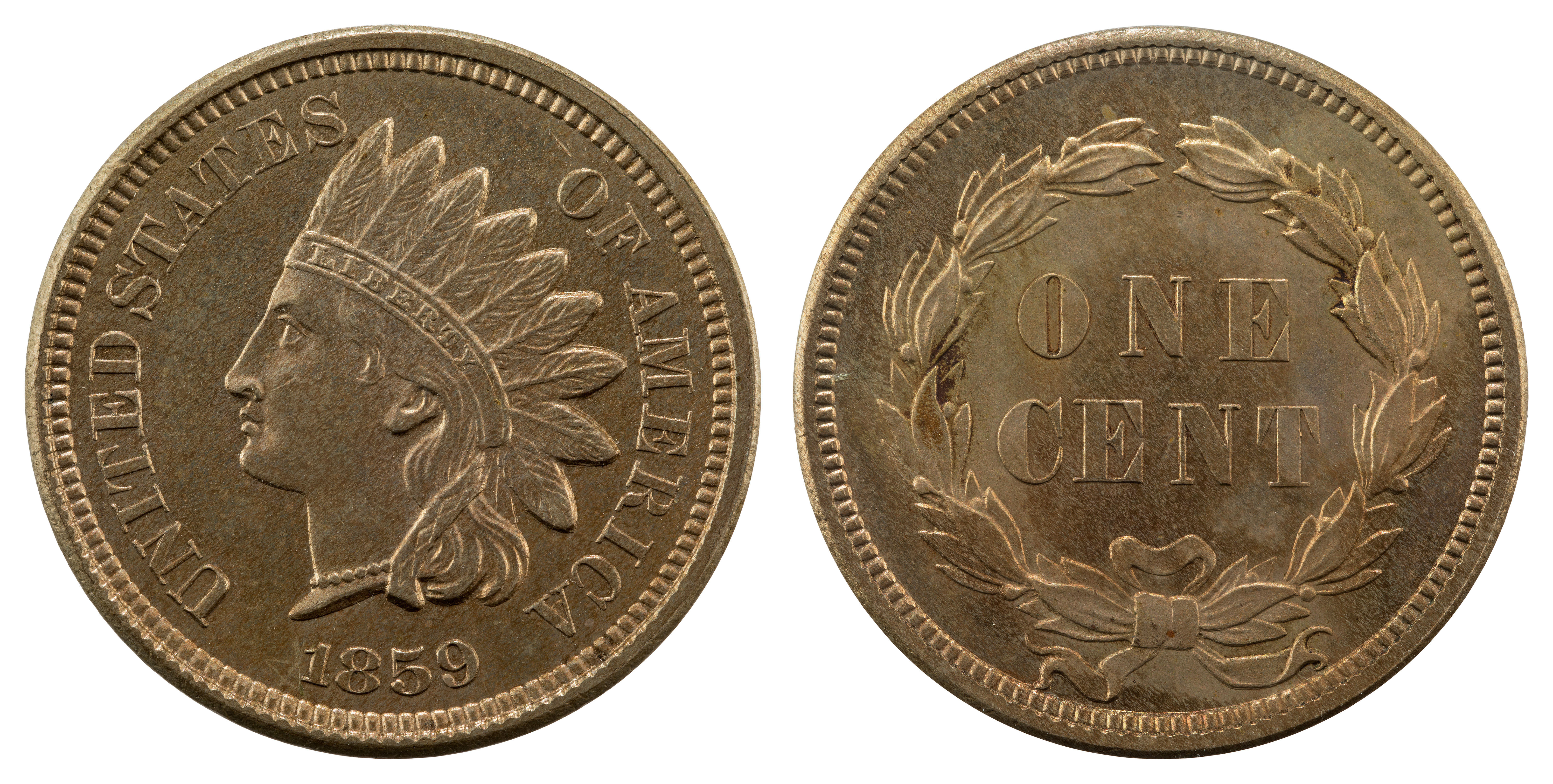 1859-1C-Indian Head Cent (wreath)JN2015-6838-39